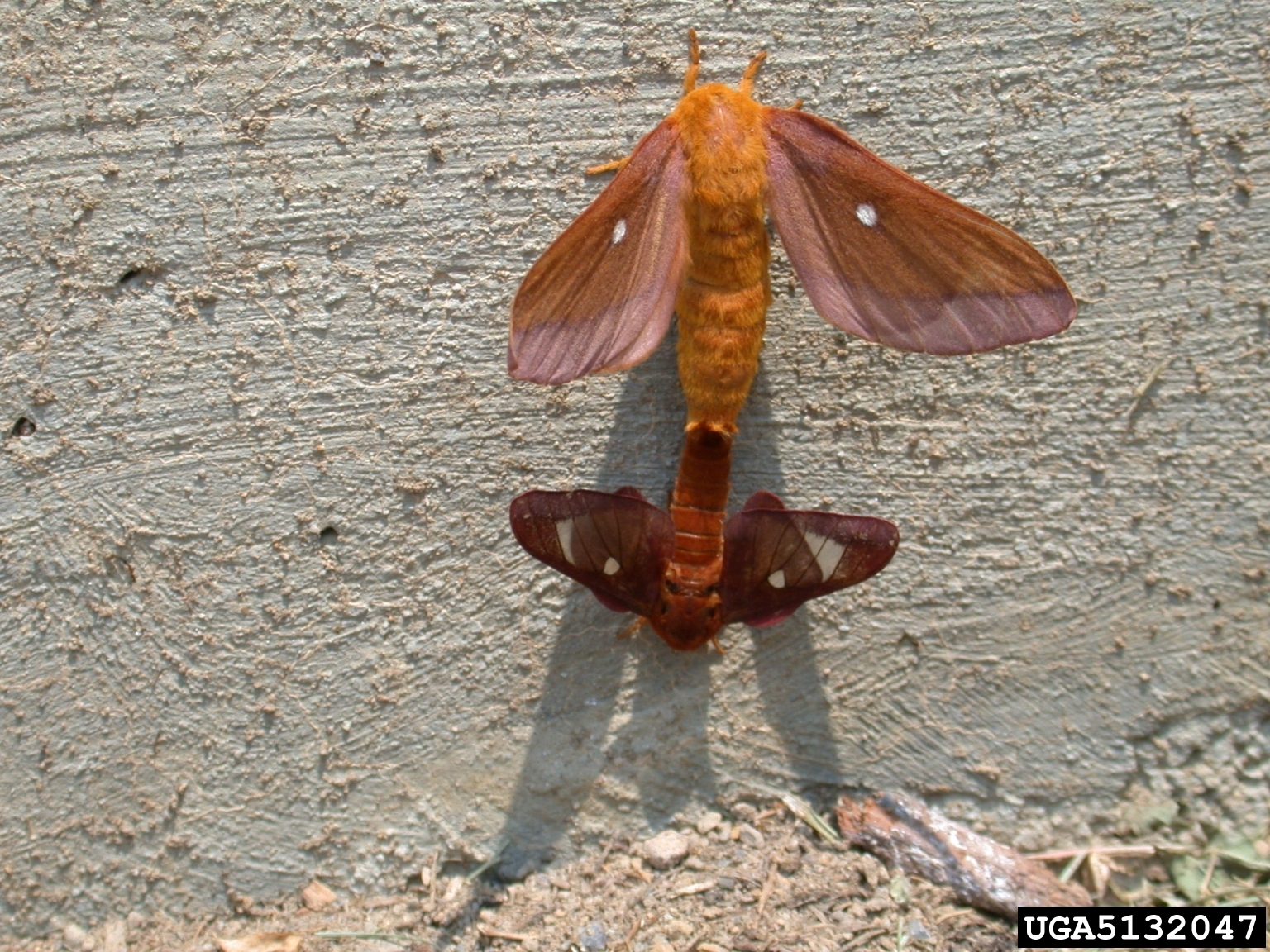 Anisota virginiensis mating